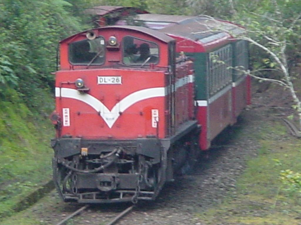 DL-26 on Jhushan line, Alishan Forest Railway.